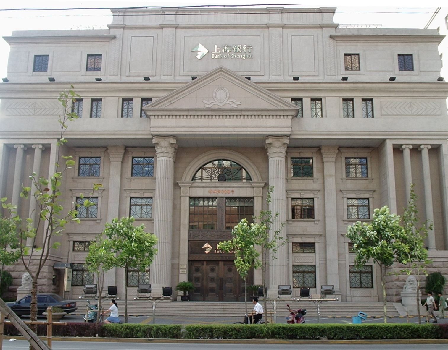 This bank, in a mock colonial style, is on one of the main streets in Jia Ding, a district in the west of Shanghai. The mock colonial style even extends to the traditional lion statues, often seen outside Chinese buildings as they are thought to bring good fortune, which are of a western, rather than Chinese, type.